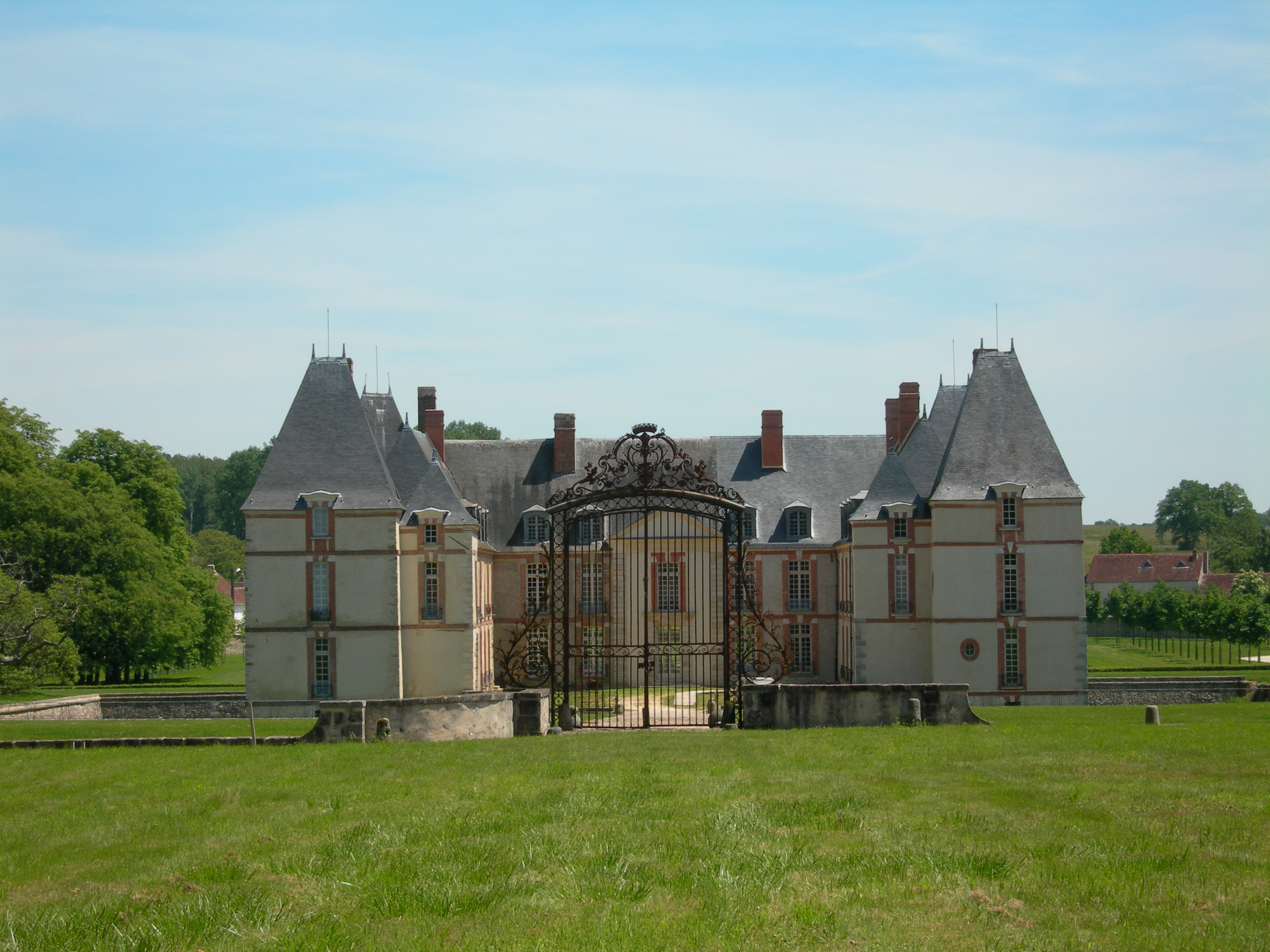 Castle of Reveillon